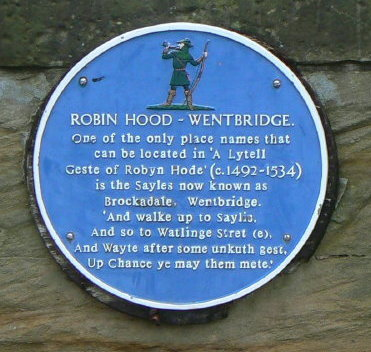 Bench mark and plaque. The blue plaque connects Wentbridge with a location described in the legend of Robin Hood. This image represents an Open Plaques entry #4784.